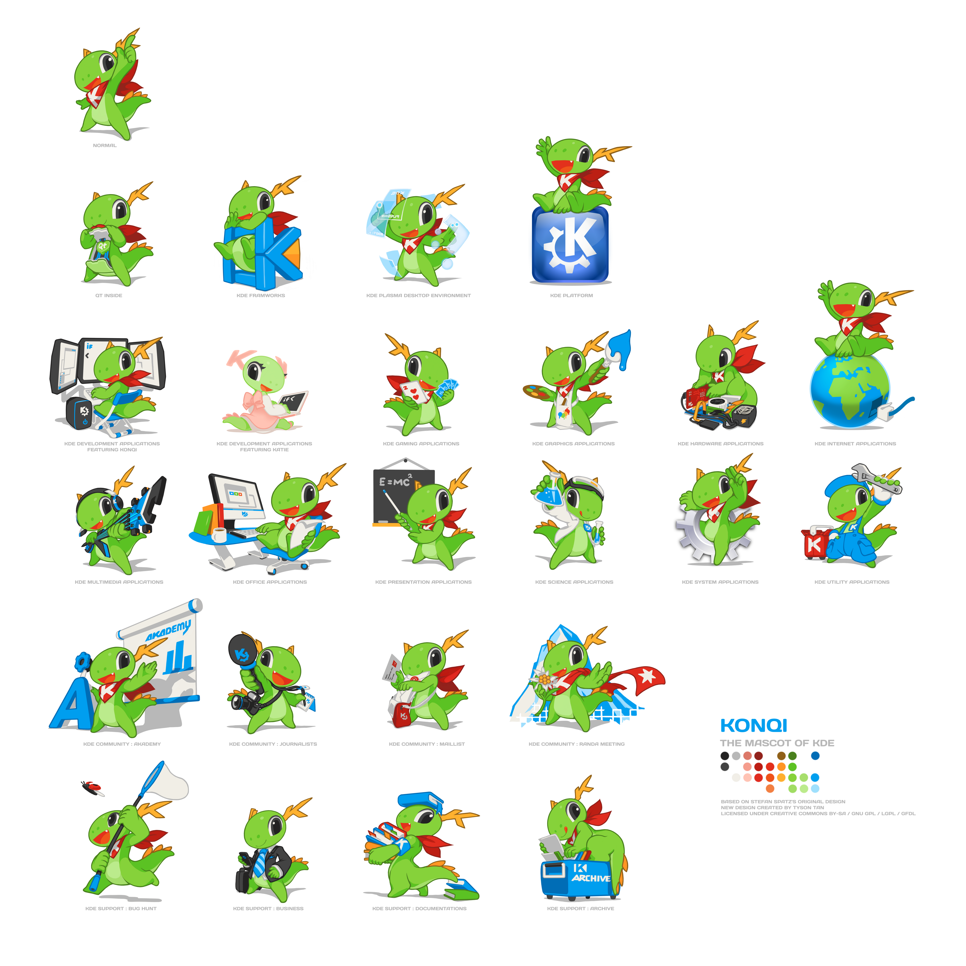 Konqi pose collection by Tyson Tan